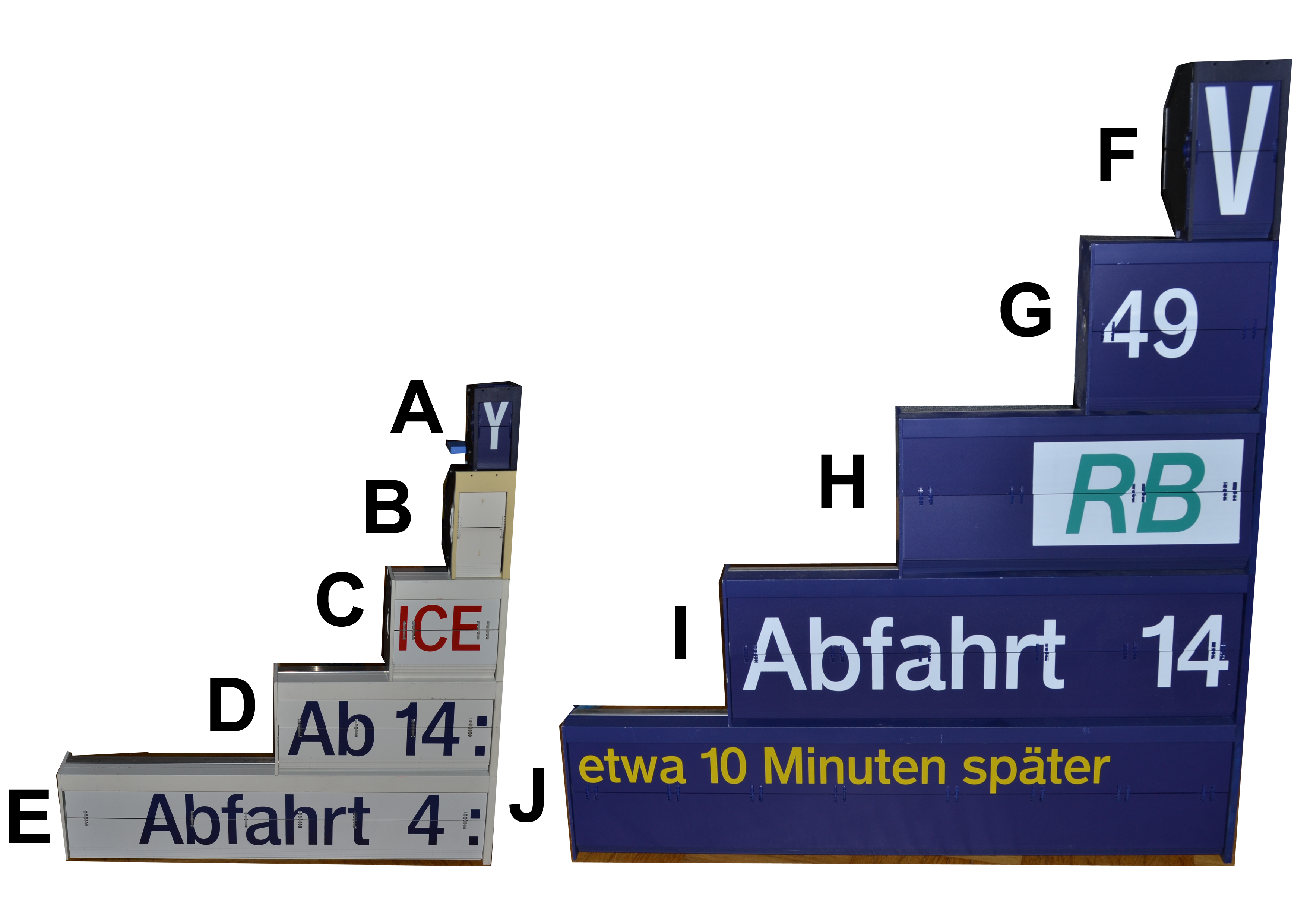 These Split-Flap modules were used by the Deutsche Bahn and produced by Krone/MAN-Systeme